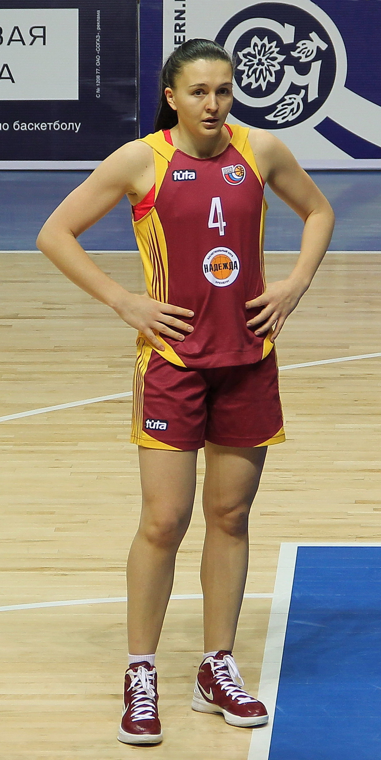 Russia, Vologda, Ekaterina Ruzanova in game «Vologda-Chevakata» vs «Nadezhda» (Orenburg)